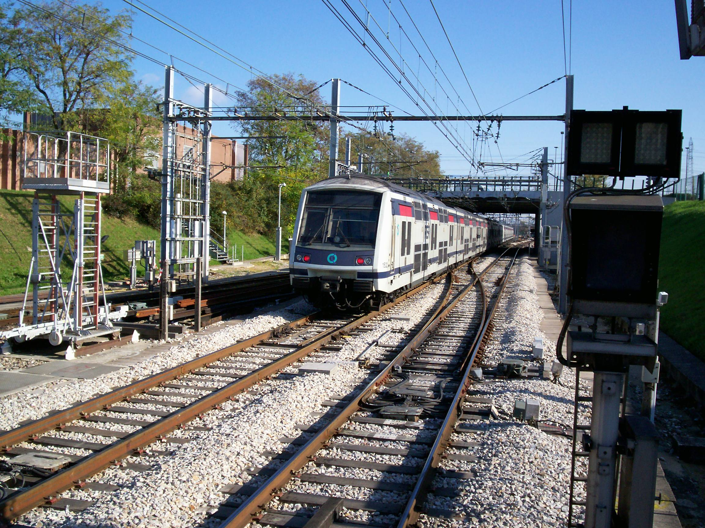 A train MI 2N Alteo at Torcy station going to Marne-la-Vallée — Chessy.